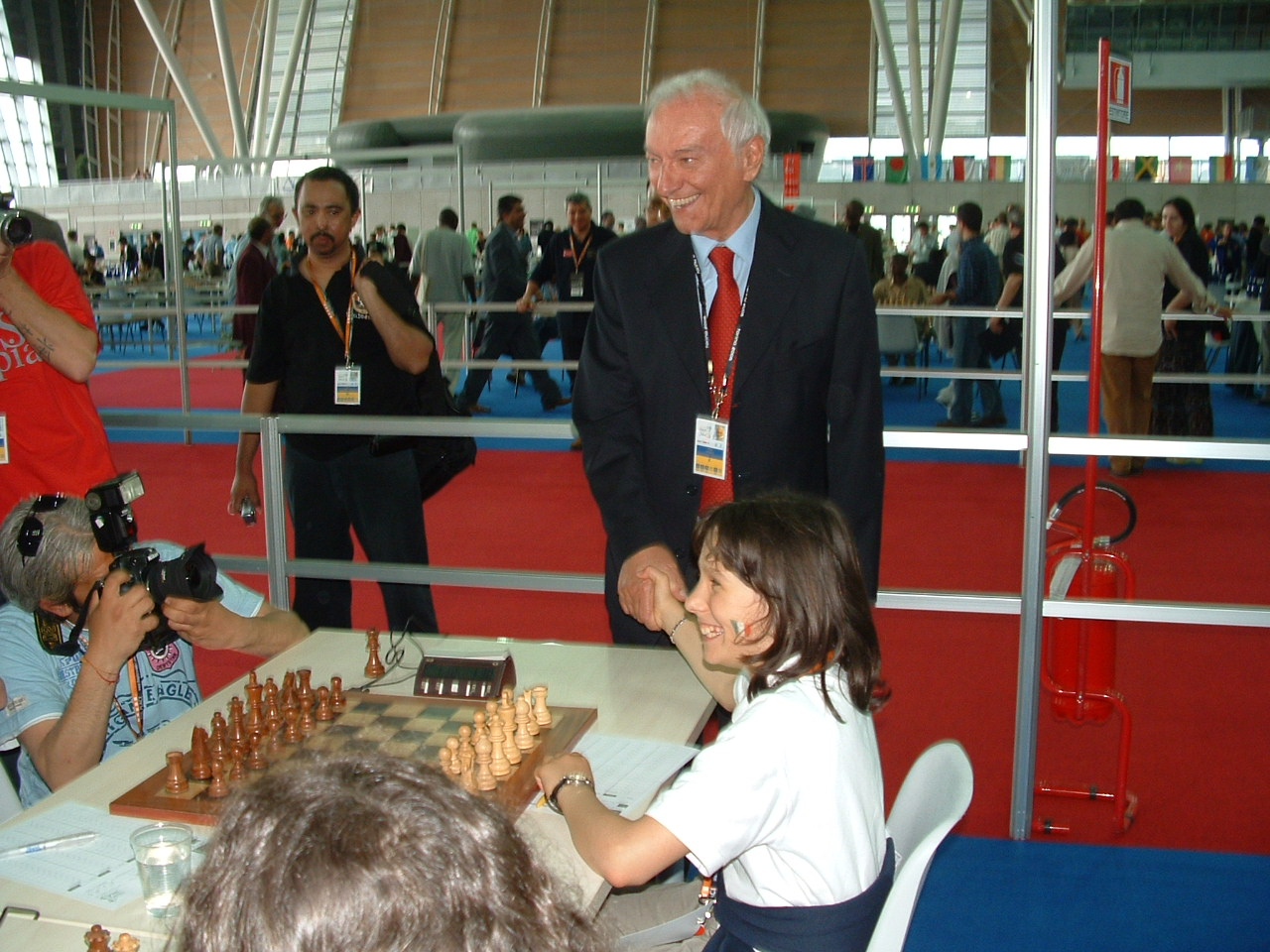 Piero Angela shakes hands with Marina Brunello at Torino 2006 chess Olympiad.